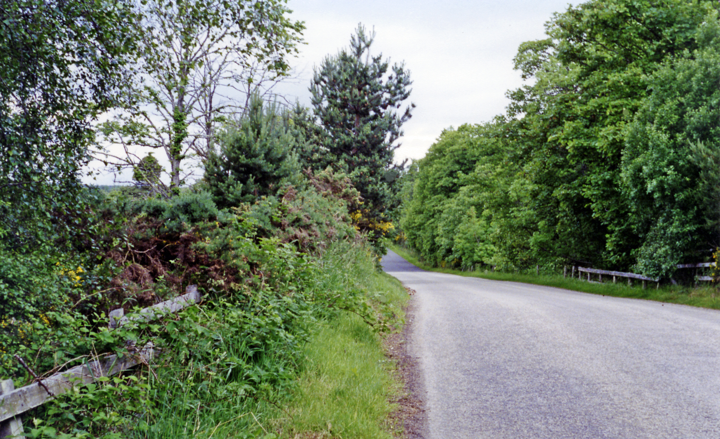 Site of Allangrange station. View NW on the B9192 Charlestown - Tore road on the Black Isle. This is another nondescript stretch of highway, but until the Muir of Ord (left) - Fortrose (right) branch of the former Highland Railway was closed on 13/6/60 (passenger service ceased from 1/10/51) it crossed at this point. The station had been up to the left.